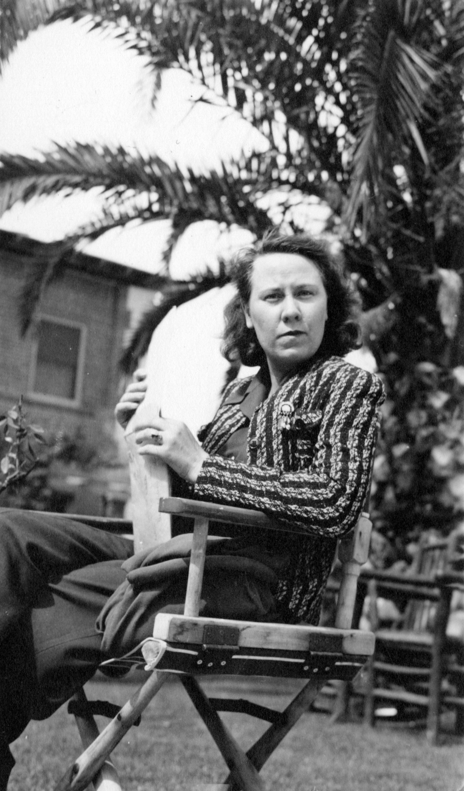 Maurine Whipple ~1954 at Dr. Walker's home.